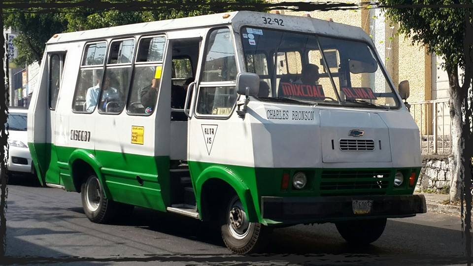 Microbús (minibus) at Olivar del Conde, Mexico City, Mexico